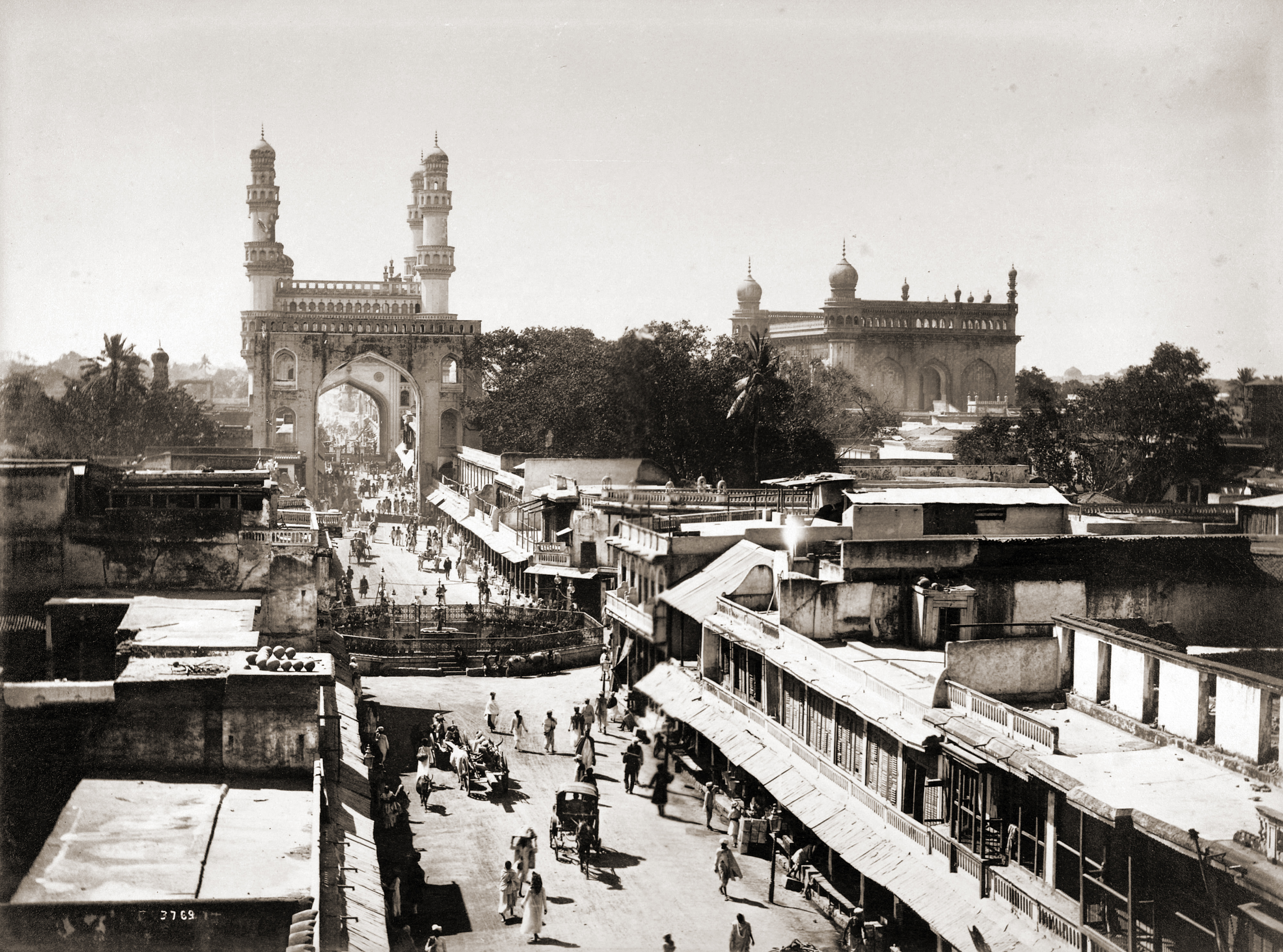 Photograph of a street in Hyderabad looking towards the Char Minar, taken by Deen Dayal in the 1880s. The Mecca mosque, begun in 1617, can be seen to the right of this image.